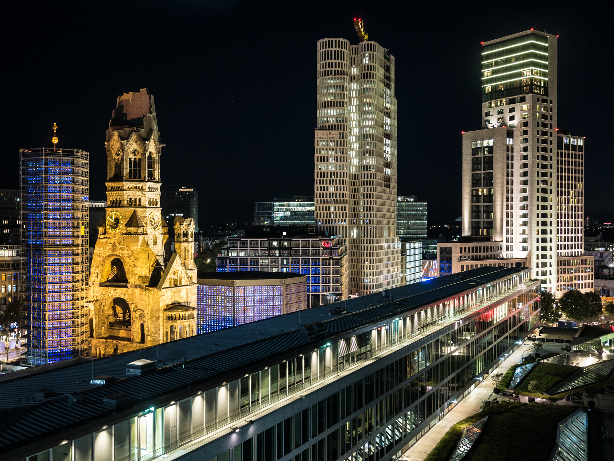 Bikini-Haus, Berlin. In the background: Gedaechtniskirche, Upper West and Zoofenster